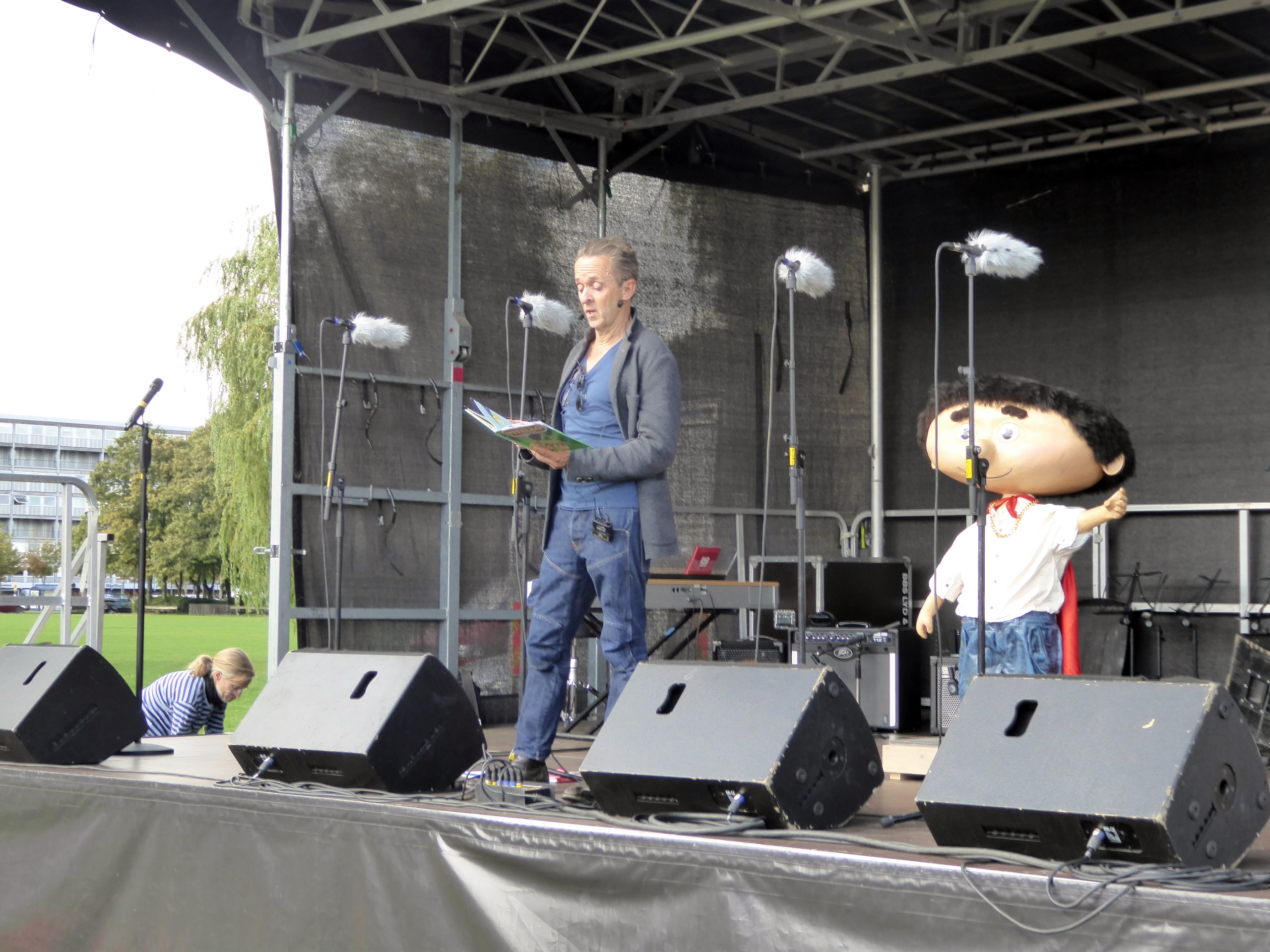 The Children's literature writer Kim Fupz Aakeson at the annual Rødovredagen in Rødovre in Copenhagen.